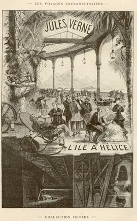 Ilustration from novel Propeller Island by Léon Benett, title page of French edition.